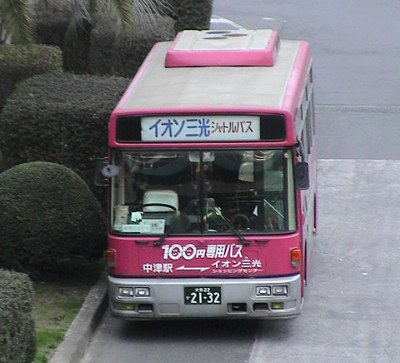 Daiko Hokubu Bus,AEON Sanko line.